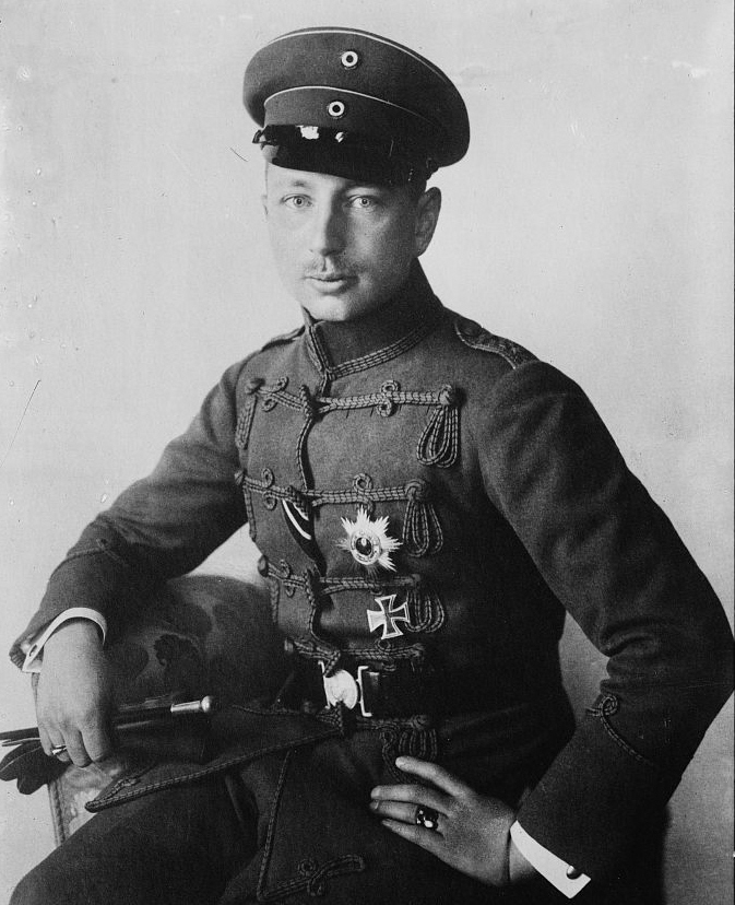 Prince Joachim of Prussia in uniform